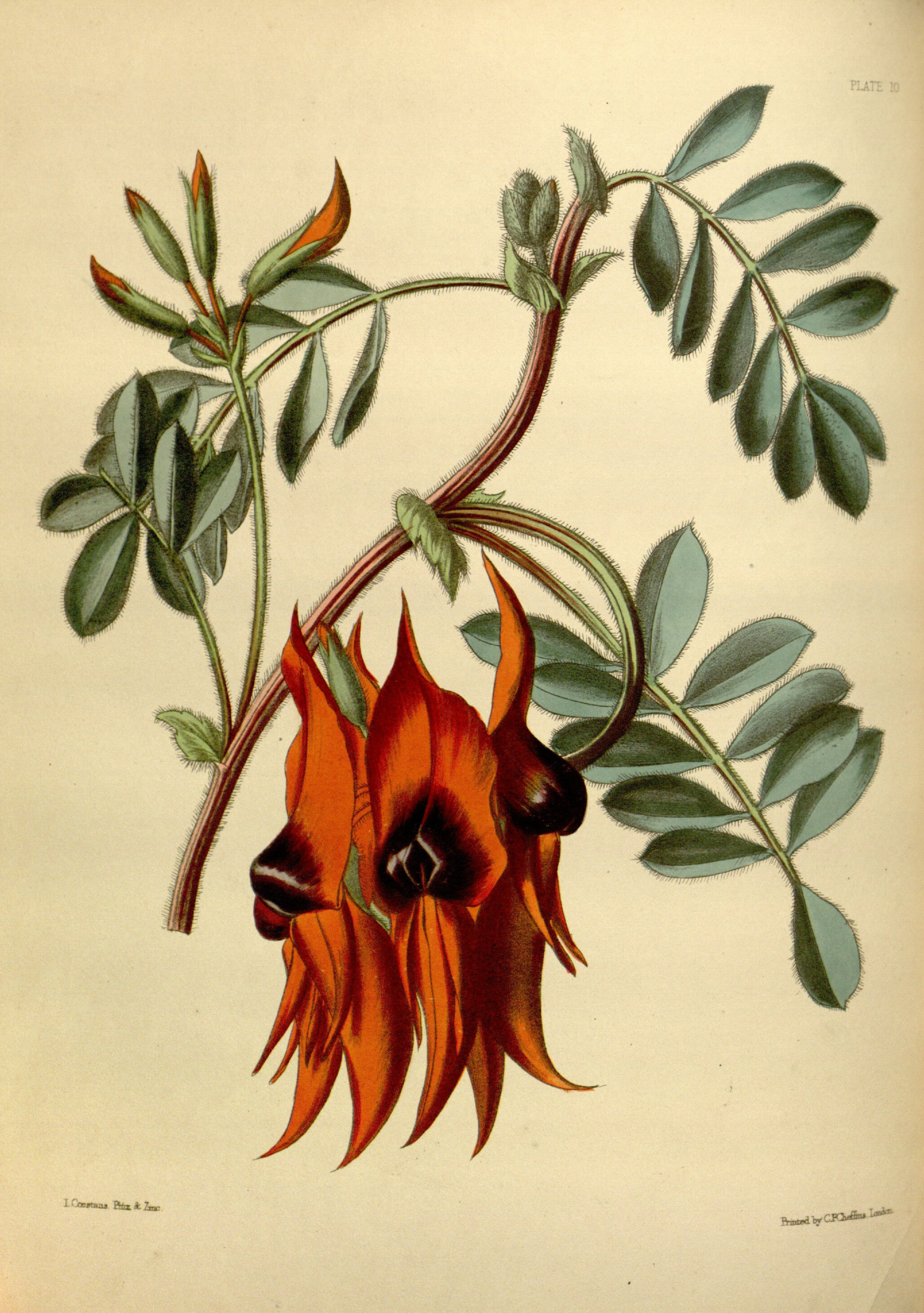 Swainsona formosa (G.Don) J.Thompson, syn. Clianthus dampieri Lindl.